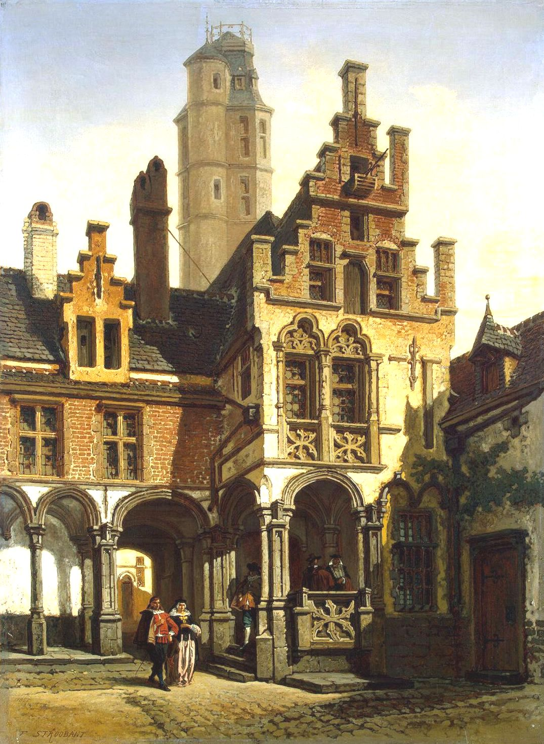 Courtyard of the Palace of Marguerite of Austria in Malines, Oil on canvas, 107x79 cm.